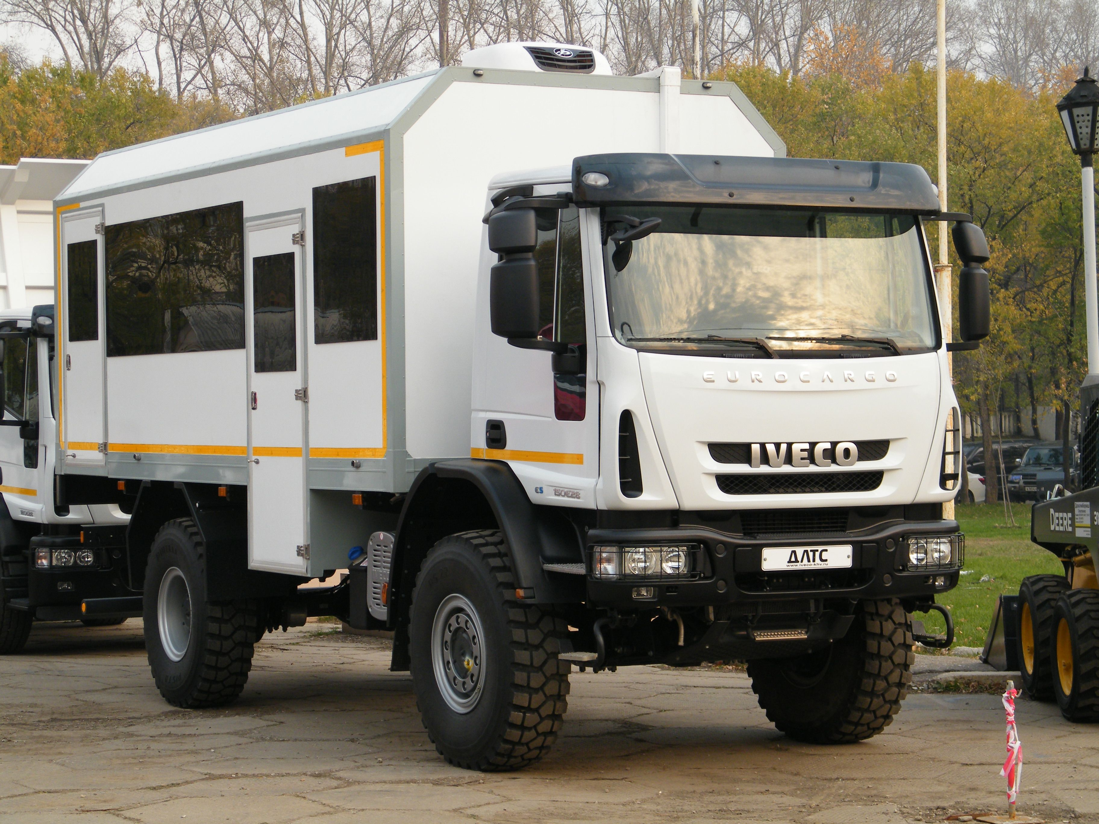 Exhibitions in Khabarovsk